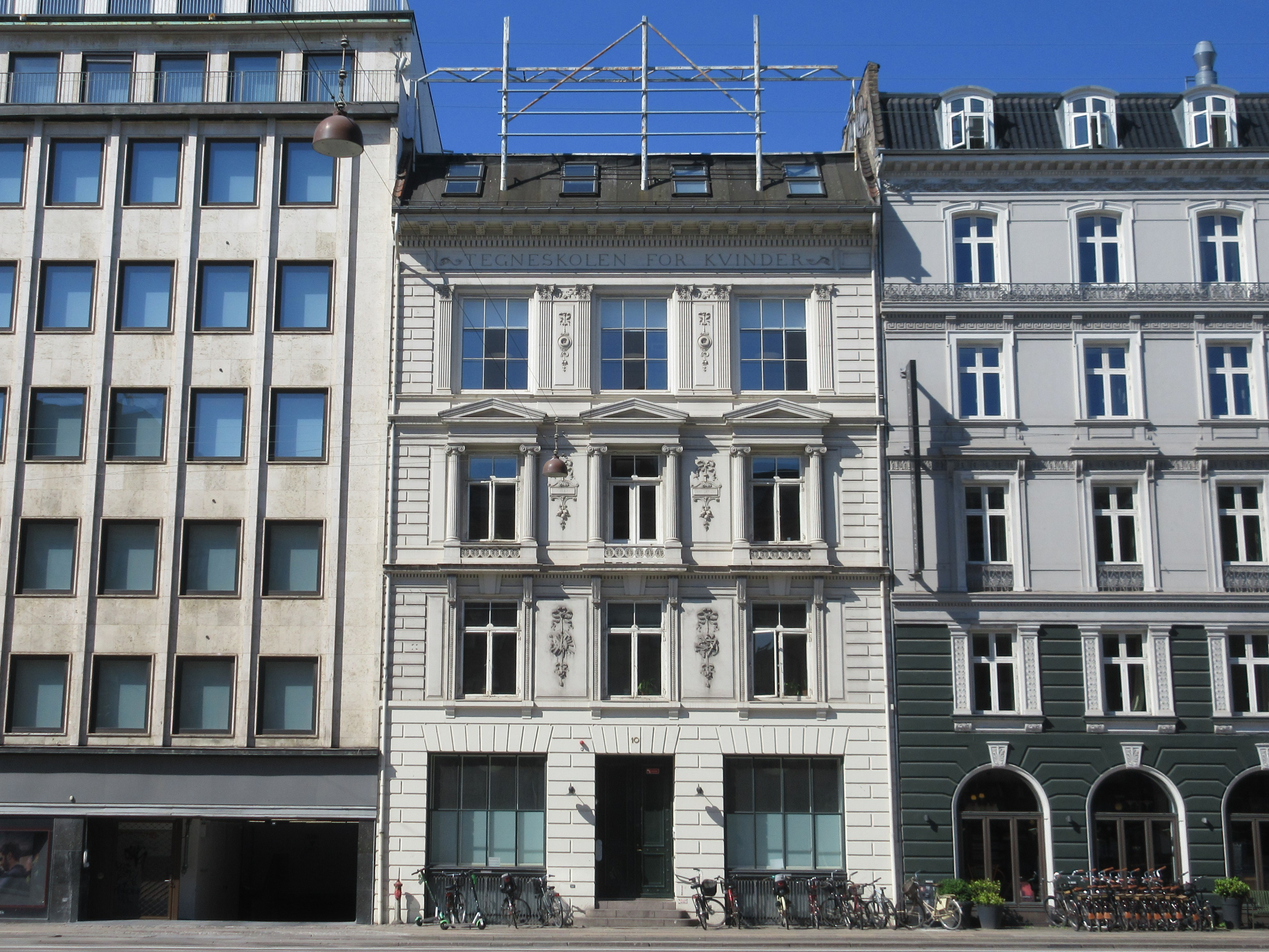 Tegneskolen for Kvinder